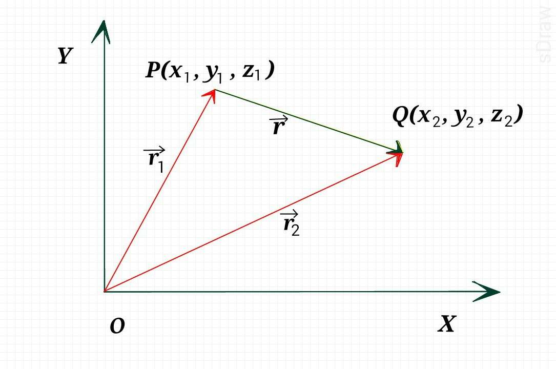 A vector from other two vectors.